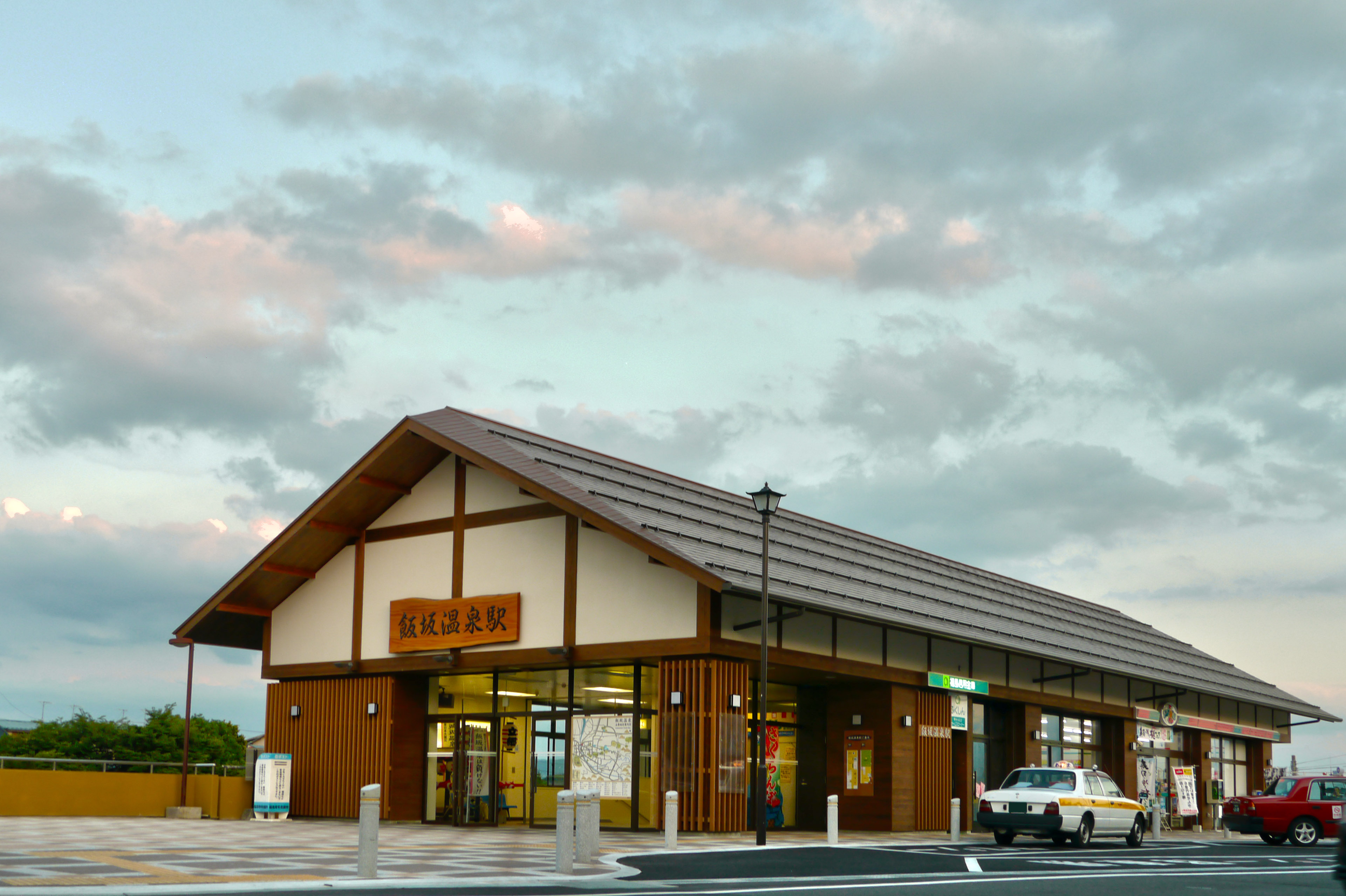 The new building of Fukushima Kotsu Iizaka Line Iizaka-Onsen Station, in Iizaka, Fukushima, Fukushima, Japan